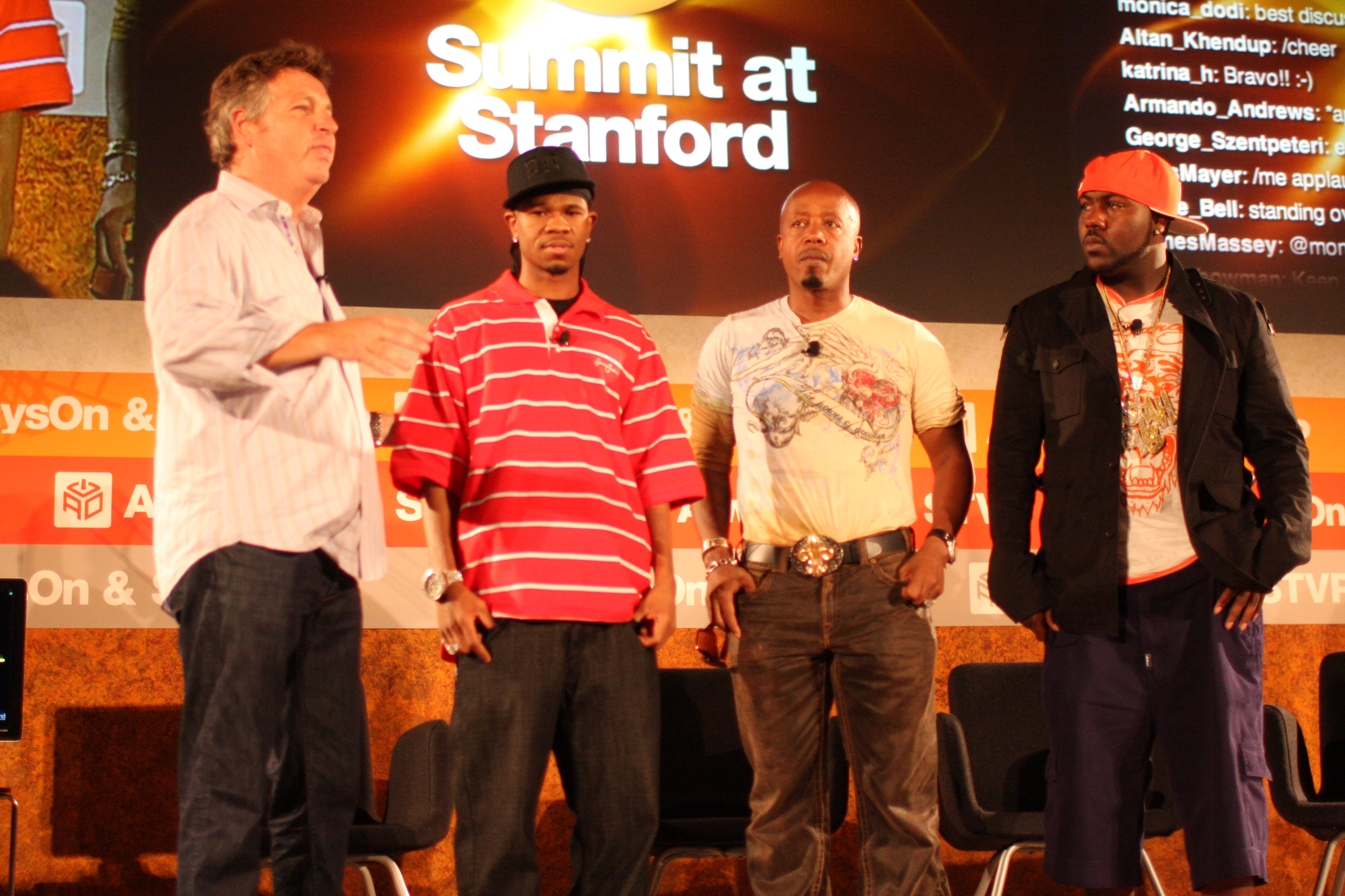 Left to right: Tony Perkins, Chamillionaire, MC Hammer, Mistah F.A.B.. (CC) Brian Solis, and .